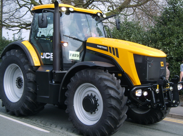 JCB Fastrac 72xx (?) at Sandbach Transport Festival 2010, England